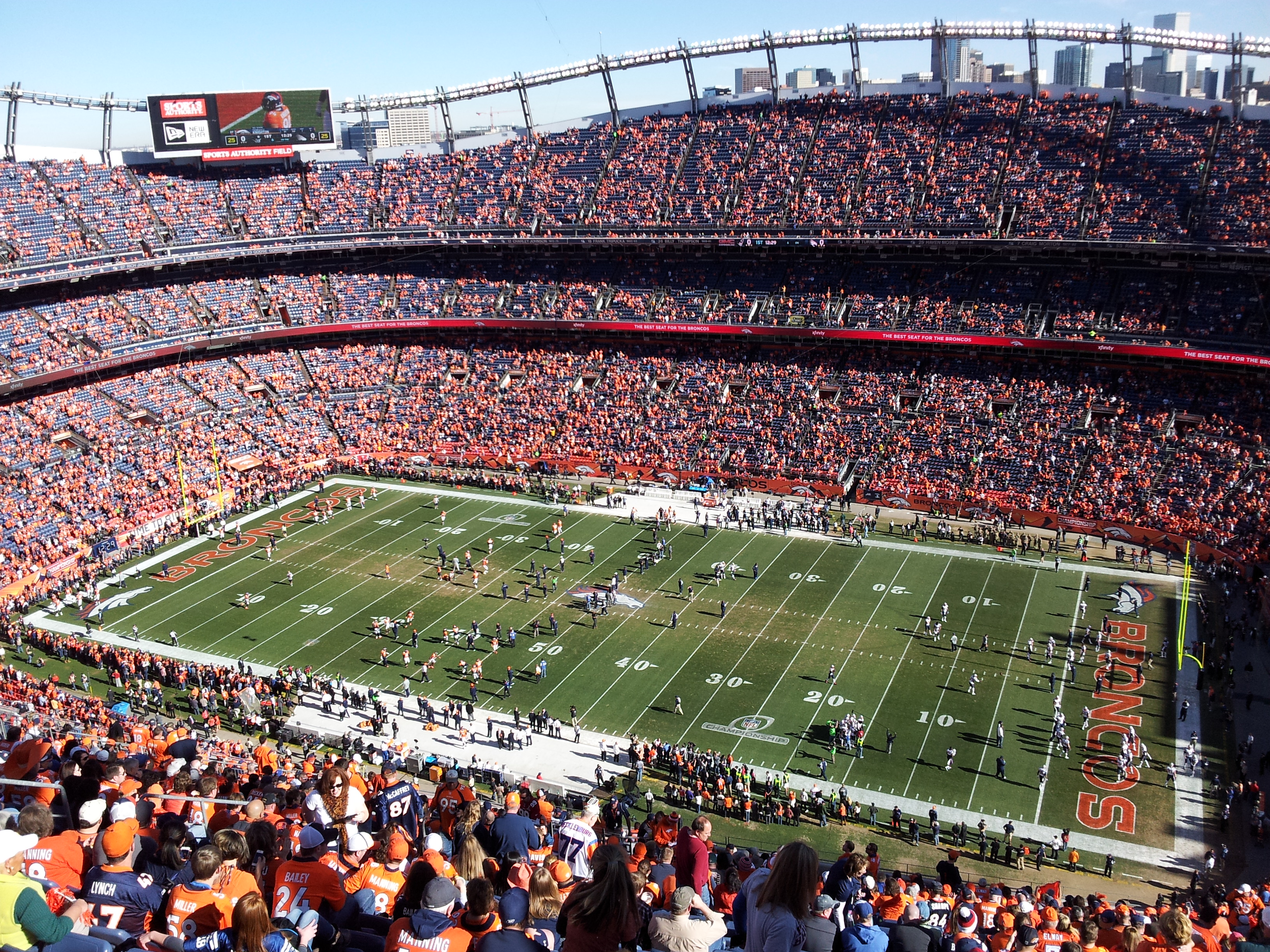 SAF at Mile High AFC Championship interior